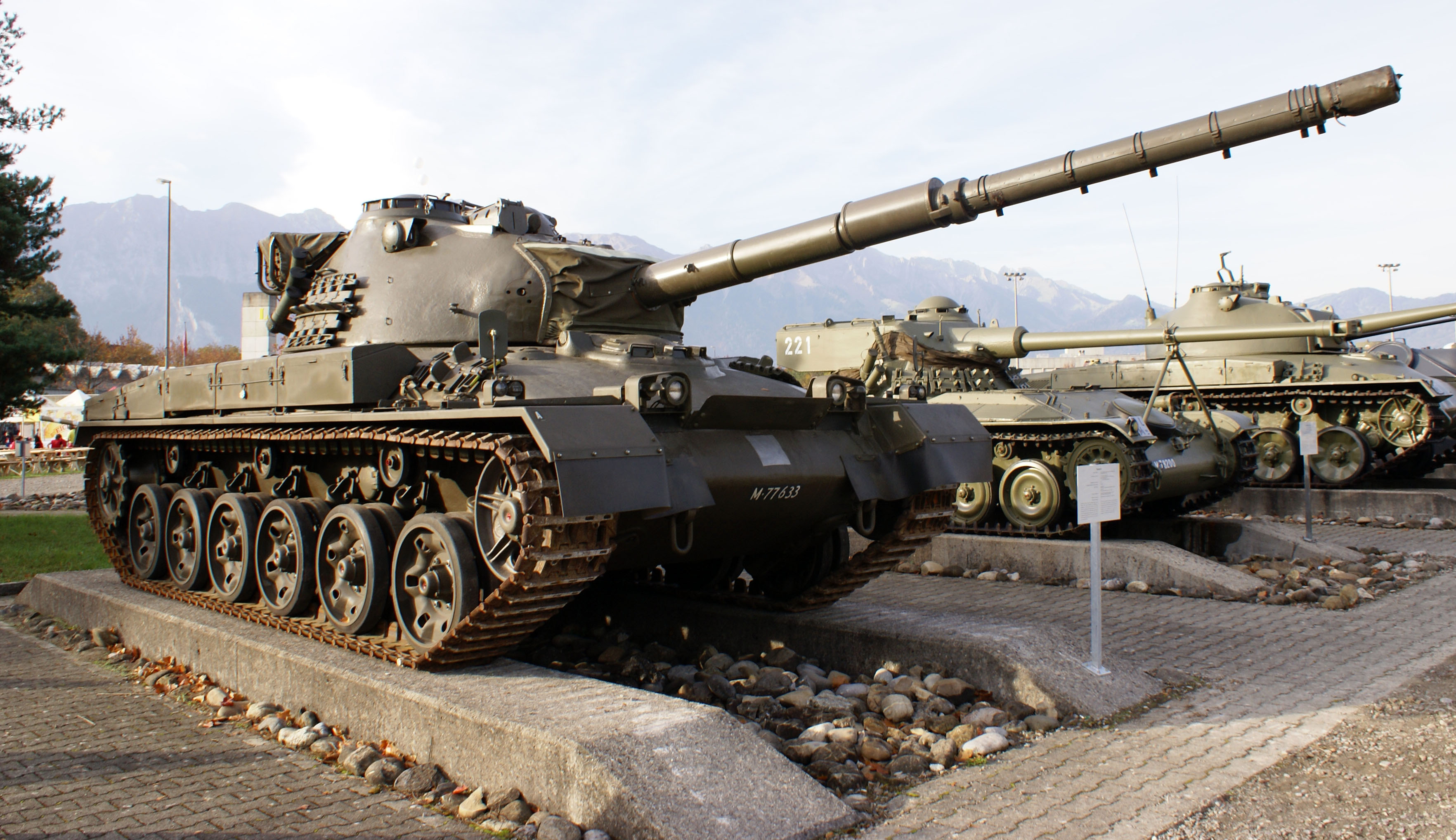 Swiss Army. Main battle tank 61. In use until 1995. Tank Museum Thun.